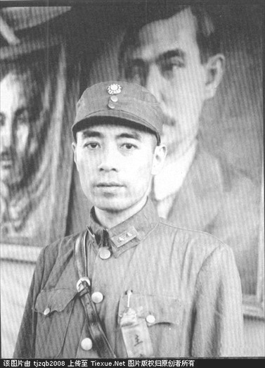 1937 Zhou Enlai in National Revolutionary Army uniform.